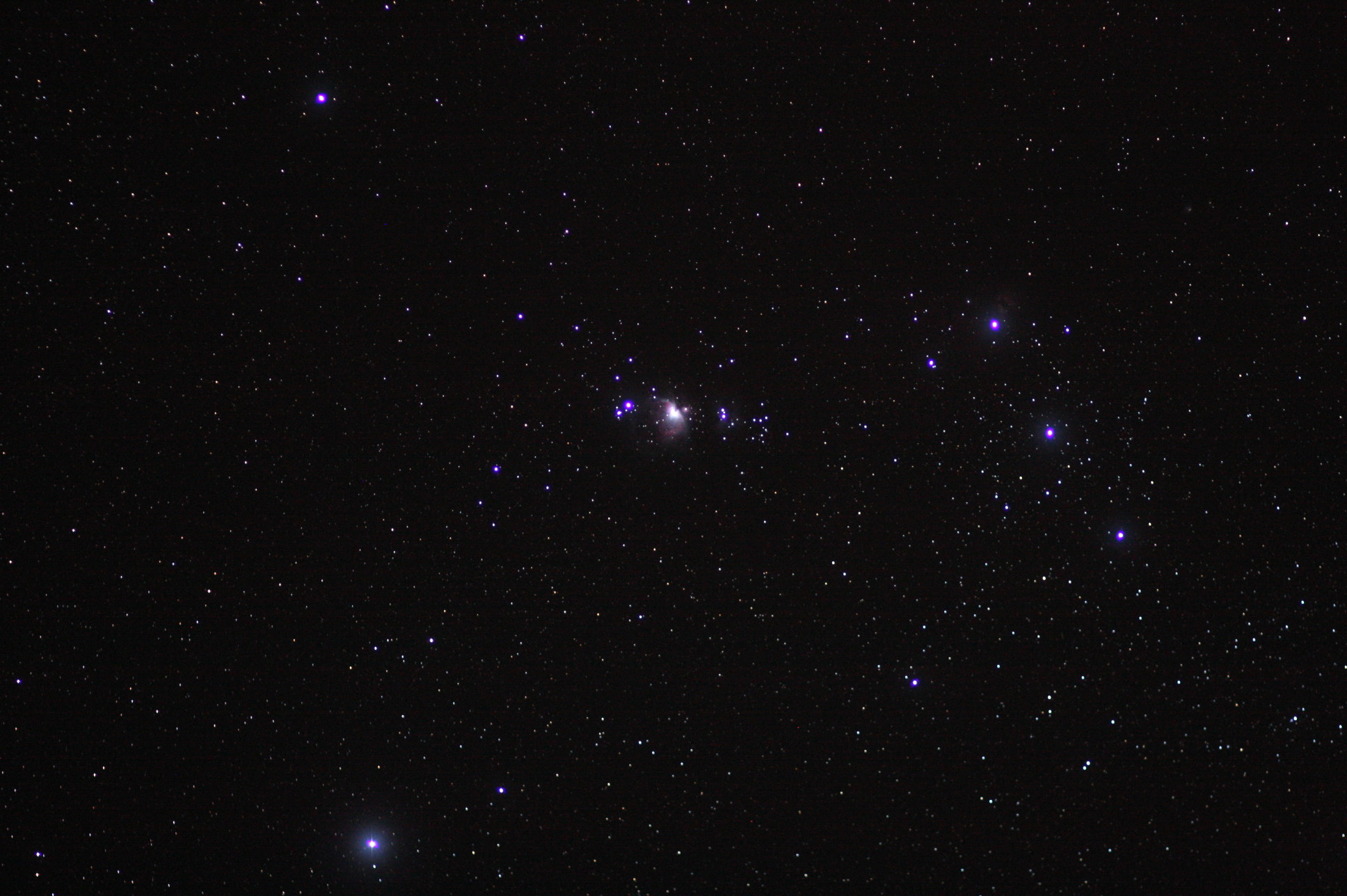 Picture of south part of Orion taken with Canon EF 85mm / 1.8 full aperture mounted on a Canon EOS 40, 8 seconds from a deep dark sky on Lembongan Island near Bali, Indonesia. The photo shows stars up till magnitude 12.